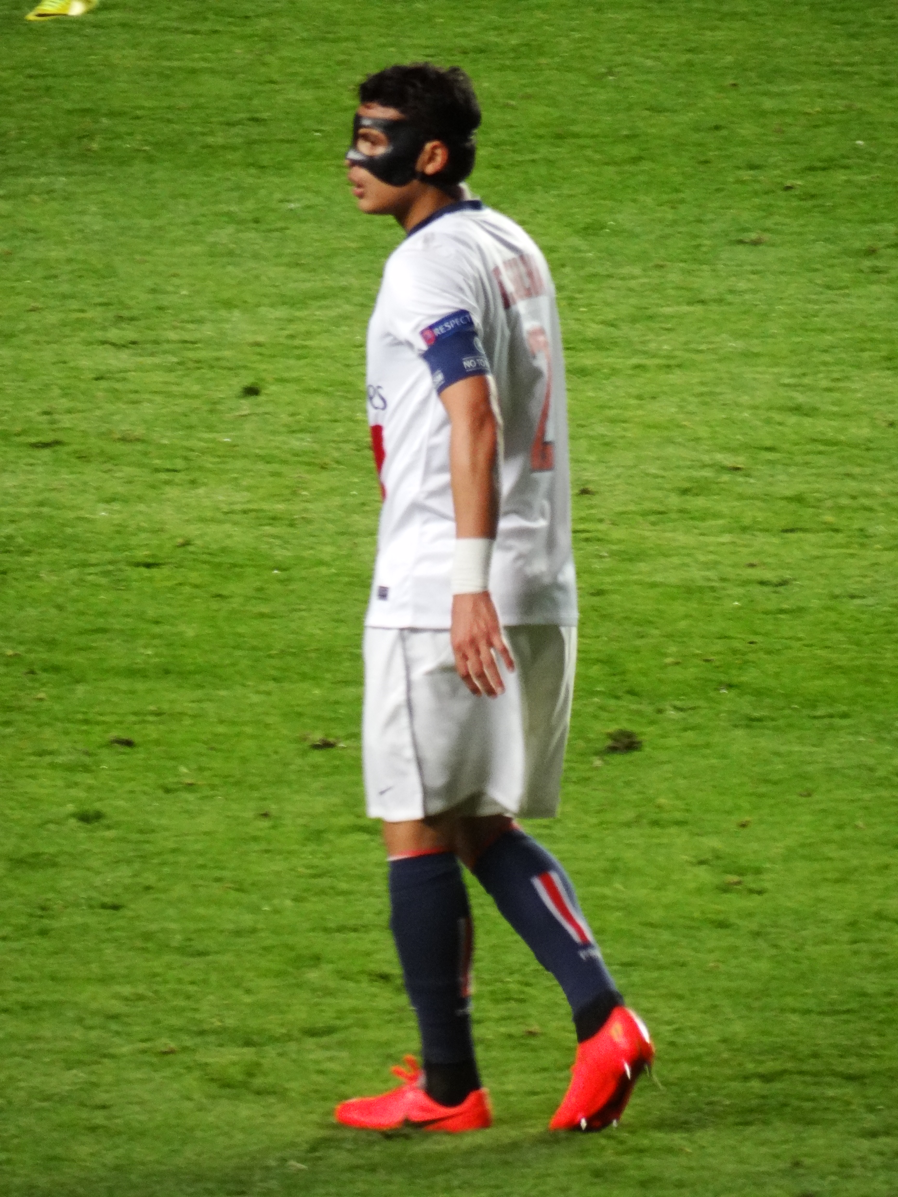 Chelsea FC v Paris Saint-Germain, 8 April 2014, Stamford Bridge, London.